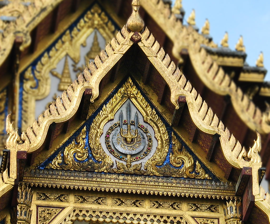 Emblem of Chakri-Dynasty on pediment of throne hall Phra Thinang Chakri Maha Prasat, Grand Palace of Bangkok, Thailand.